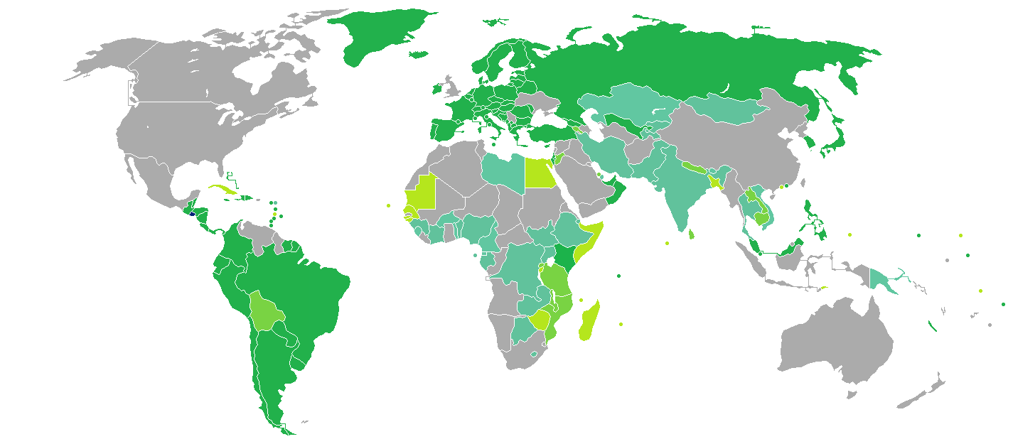 Visa requirements for El Salvador citizens El Salvador Visa free access Visa on arrival Visa on arrival or eVisa eVisa Visa required